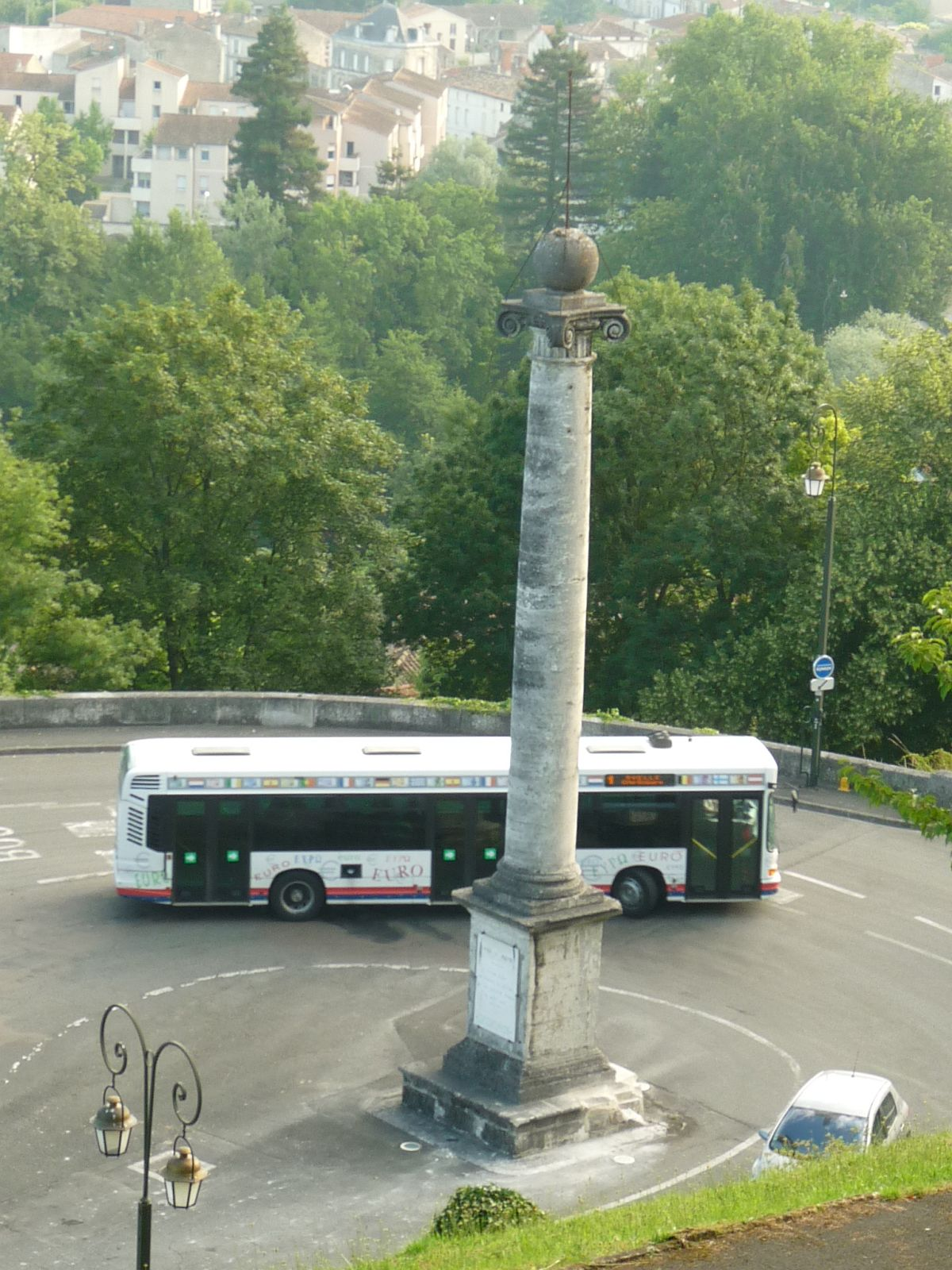 Duchesse of Angoulême Column, Louis XVI's sister (1815), Angoulême, Charente, SW France